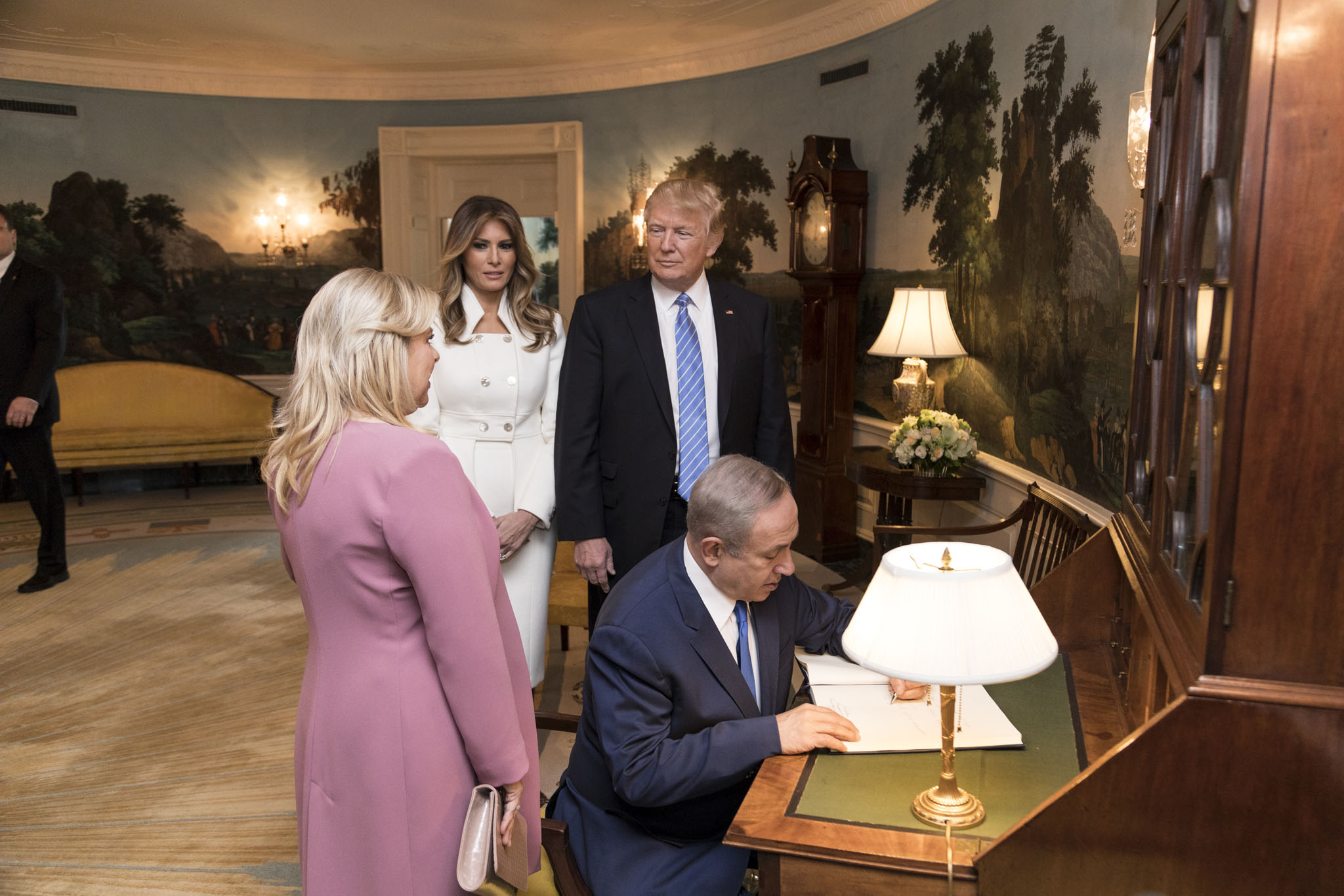 President Donald Trump and First Lady Melania Trump accompany Israeli Prime Minister Benjamin Netanyahu and his wife, Sara Netanyahu, Wednesday, Feb. 15, 2017, to the Diplomatic Reception room to sign the guest book at the White House in Washington, D.C. (Official White House Photo by Shealah Craighead)